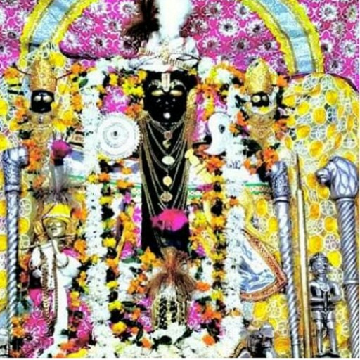 श्री रूपनारायण जी मंदिर